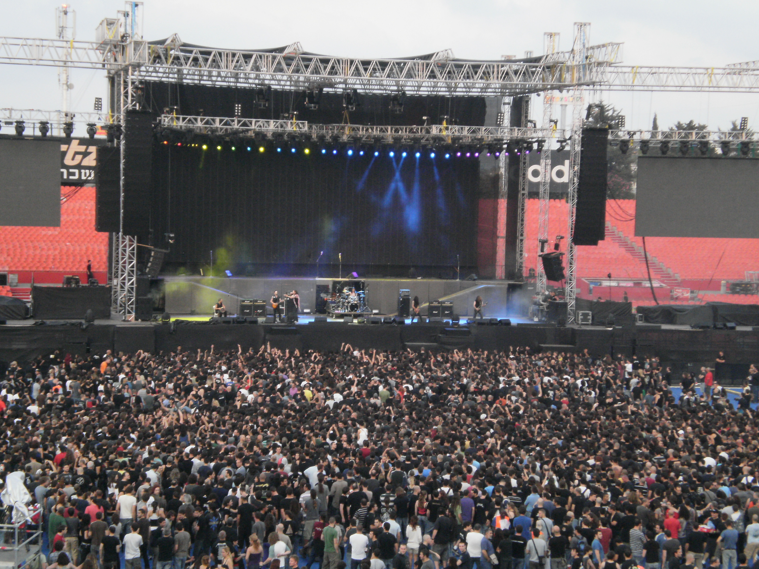 Orphaned Land live in Ramat Gan stadium